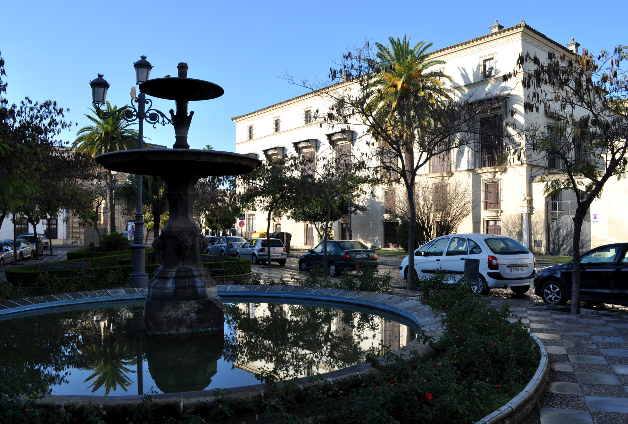 Aladro Square. View of Domecq Palace. Jerez